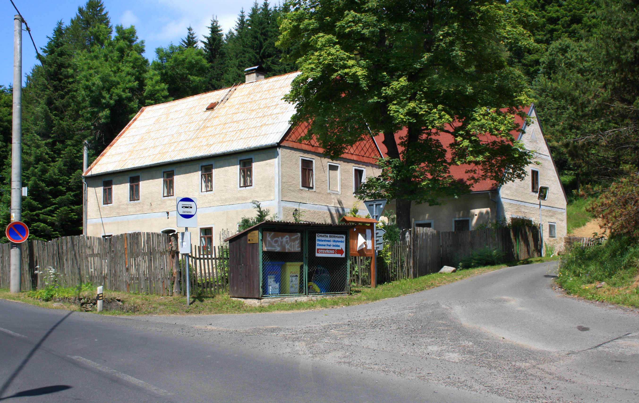 Lower part of Zákoutí village, part of Blatno, Czech Republic